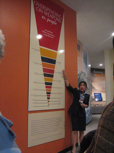 United Nations Tour Guide, a female United Nations tour guide in action.